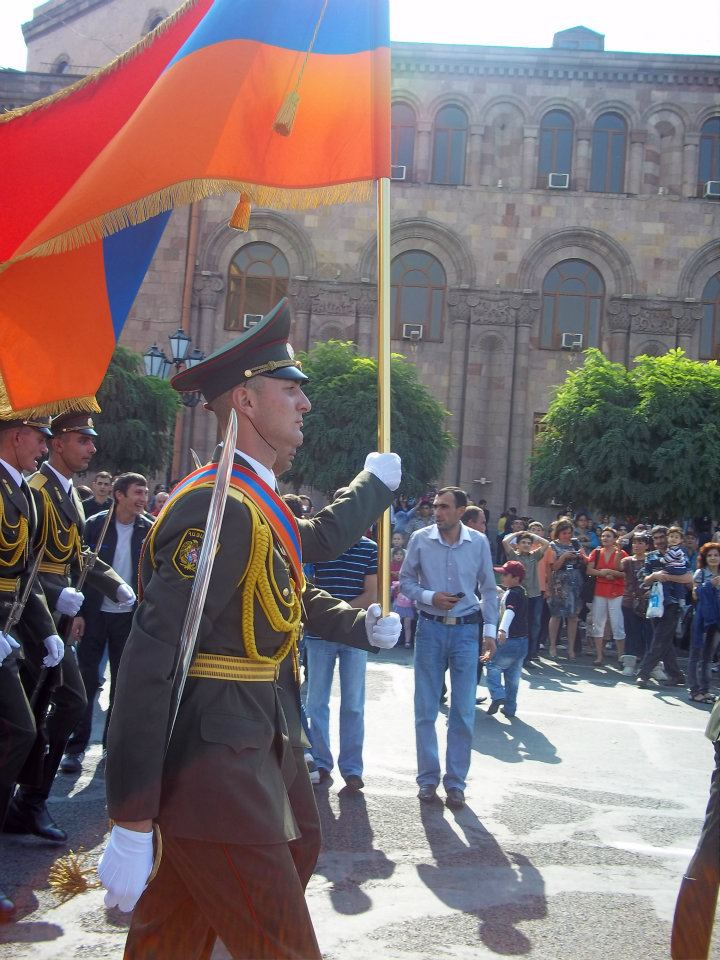 During the September 21, 2011 parade marking the 20th anniversary of Armenia's re-independence (Photo: Rupen Janbazian)